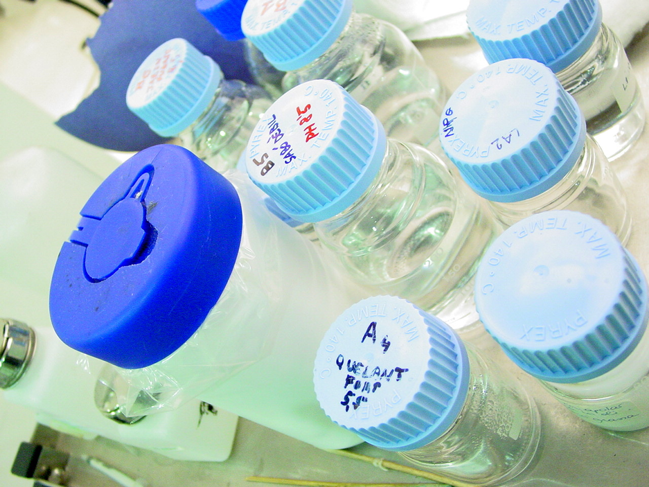 Conservation-restoration workshops of Museu Nacional d'Art de Catalunya, in Barcelona